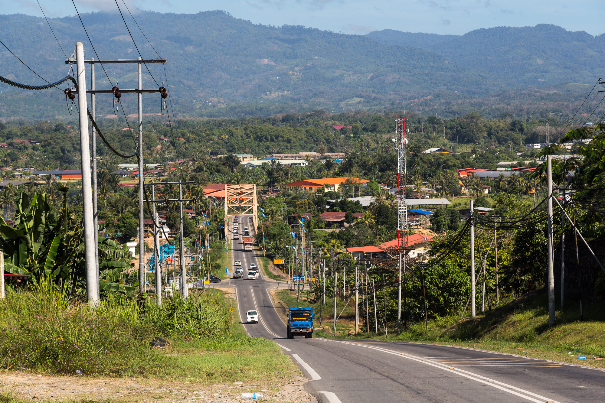 Rivers of Sabah, Malaysia: Sungai Pegalan Bridge at the Sook-Keningau Road in Keningau